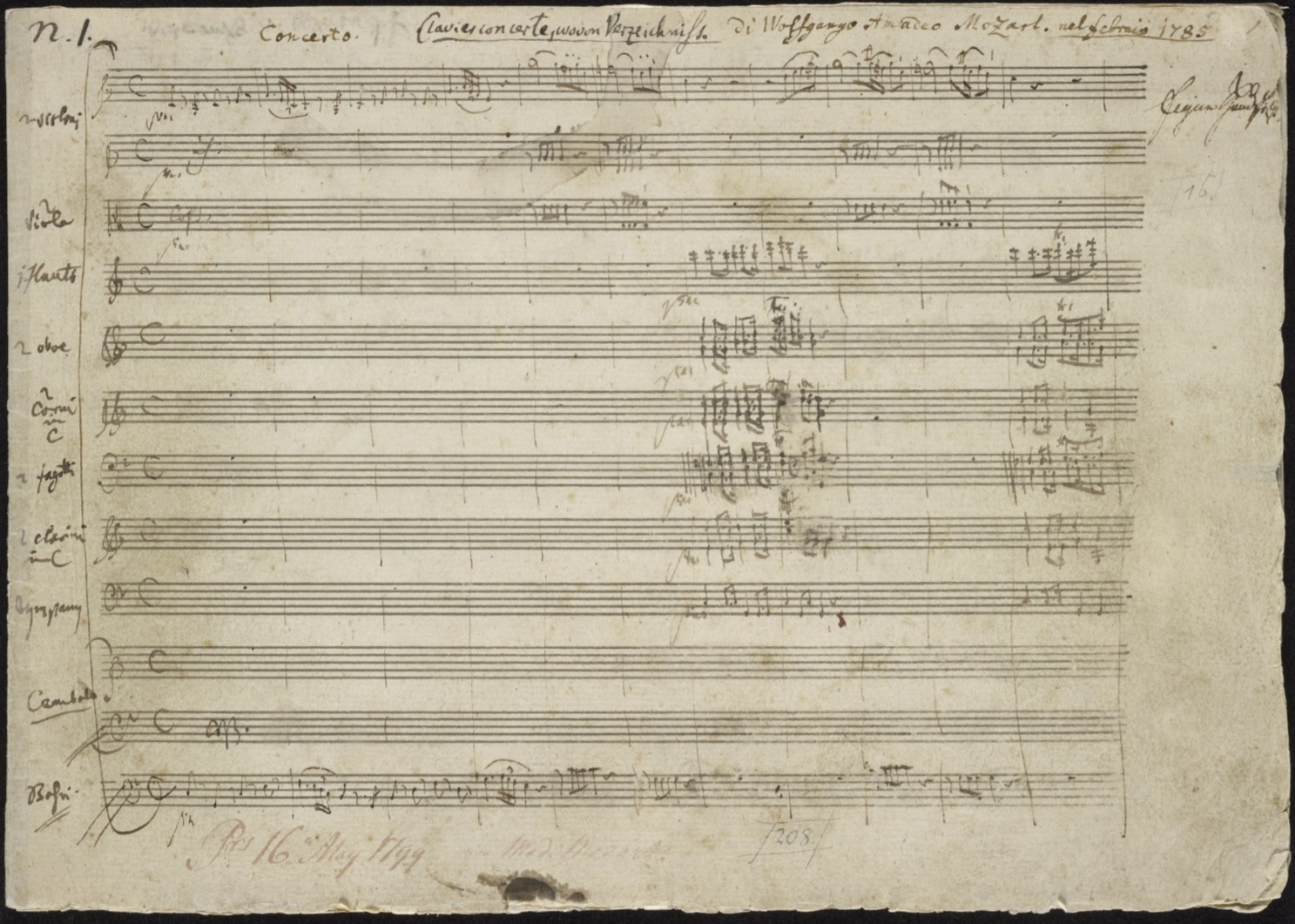 The opening page of the autograph manuscript of Mozart's Piano Concerto No. 21, K. 467, in Mozart's handwriting.